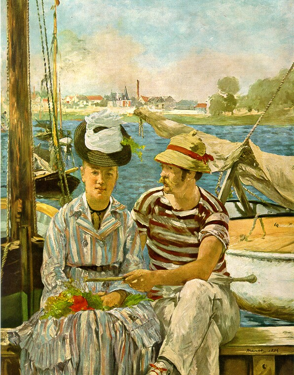 Argenteuil